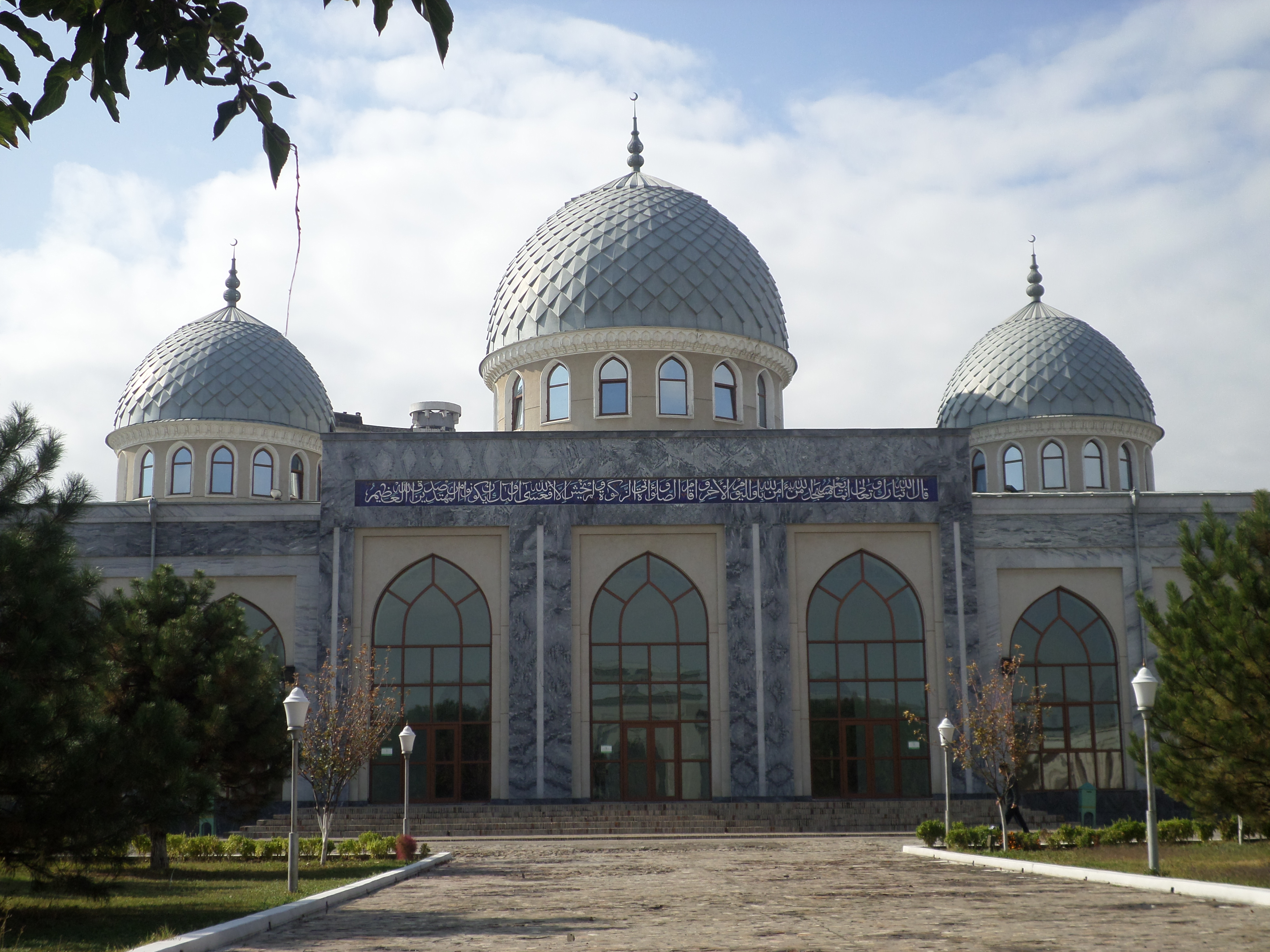 Mosque Khoja Akhrar